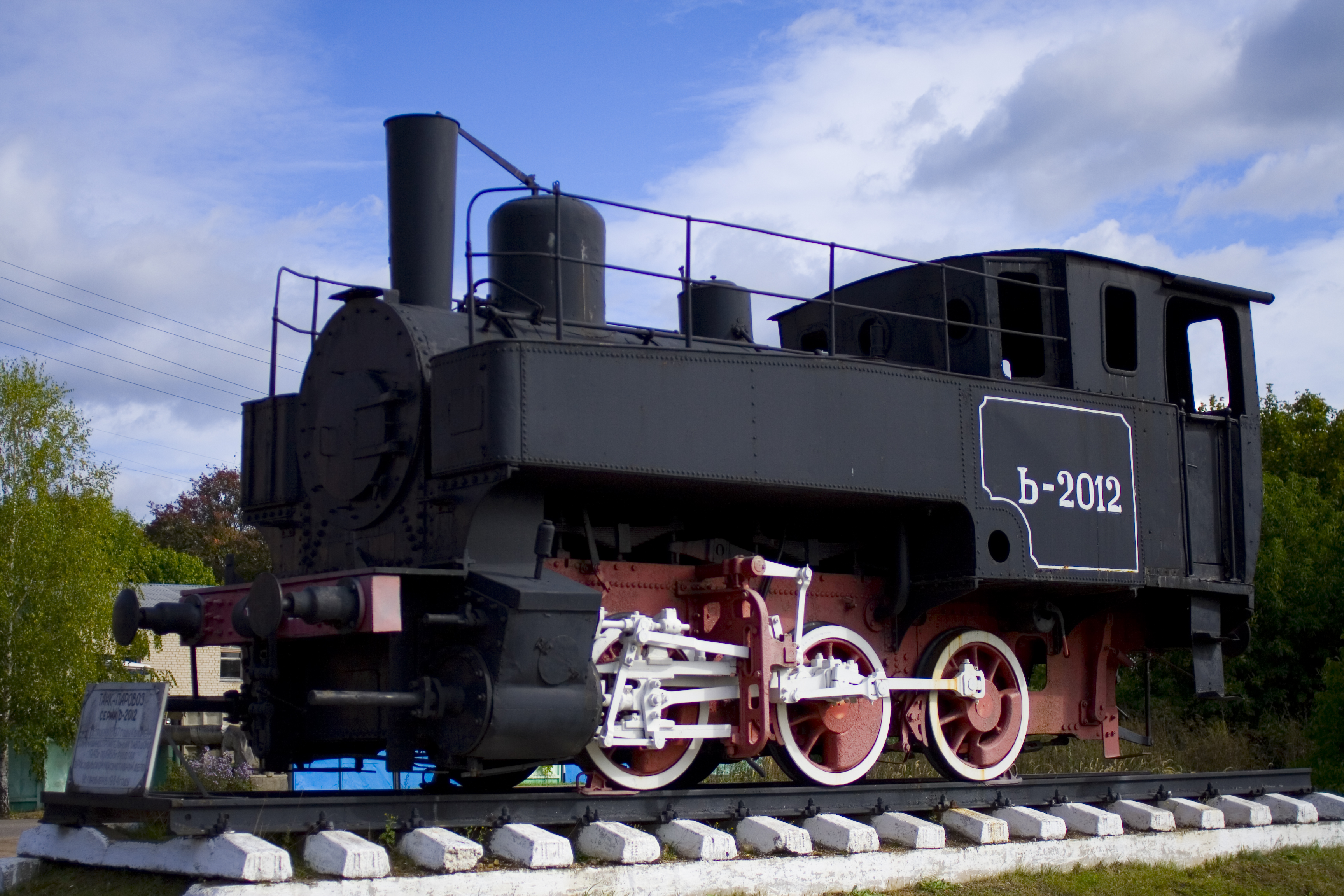 Ь(yer')-2012 steam locomotive, type 62, built at Kolomna factory in 1897 for Vladikavkaz railroad. Installed as monument in Roslavl.